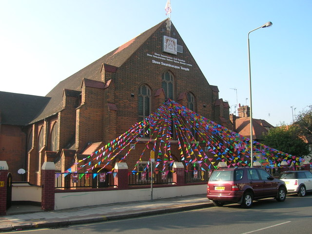 Shree Swaminarayan Hindu Temple, Finchley Road, London NW11. Flags are for Diwali